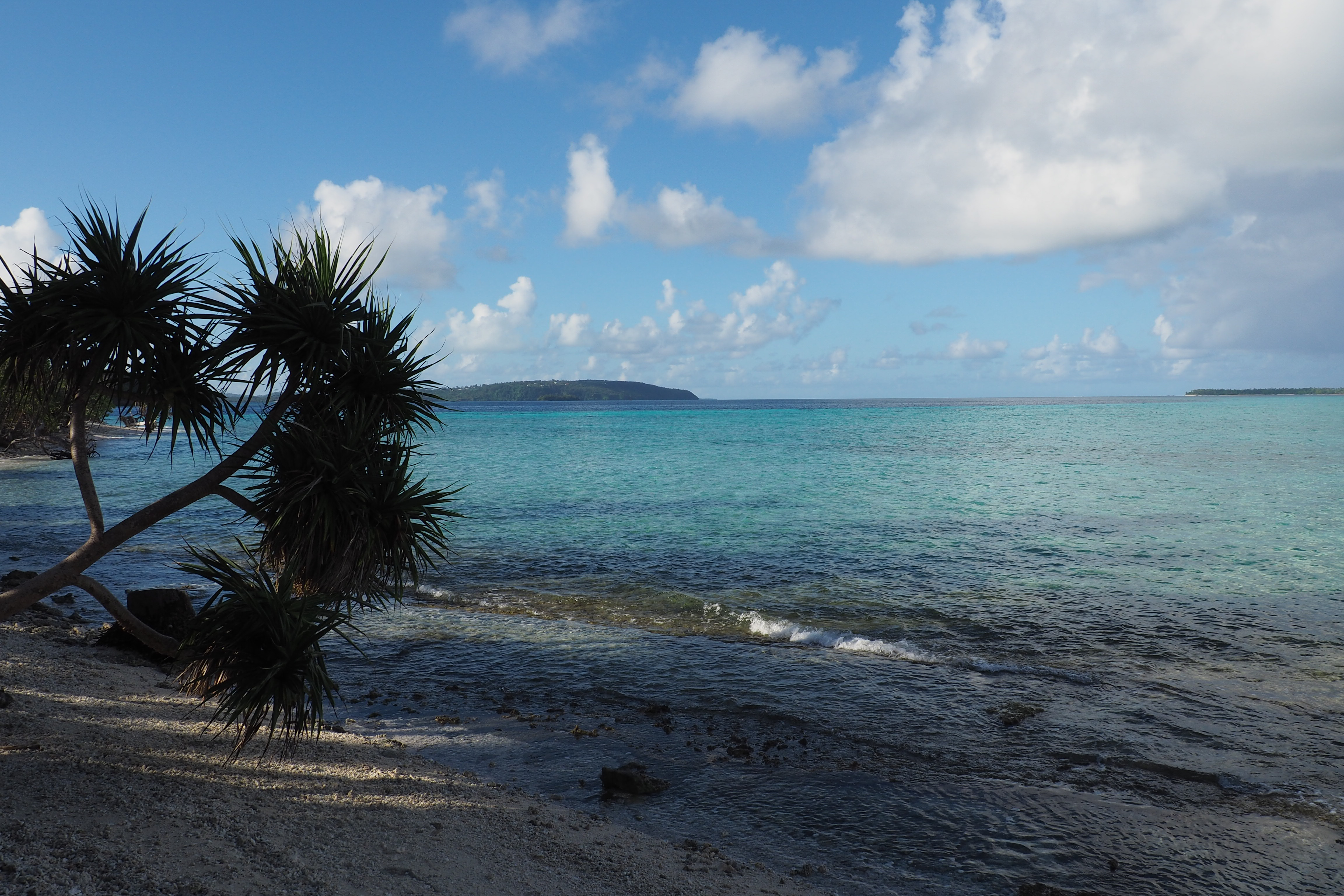 Vue depuis Nukuhifala sur le lagon - Wallis